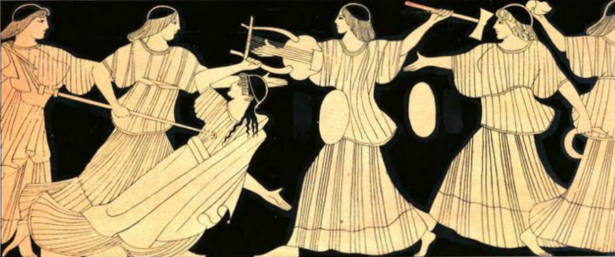 Death of Orpheus